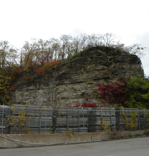 Picture of "The Rocks" of McKees Rocks, Pennsylvania, on October 24, 2009. These rocks on the cliff, which are at the end of the hill that also contains the McKees Rocks Mound, were likely the first thing the early settlers saw of the area when they traveled up the Ohio River from Fort Pitt. The area was named after these rocks as well as Alexander McKee in 1769. This image was taken near the very end of Robb Street, The Bottoms, McKees Rocks, PA.